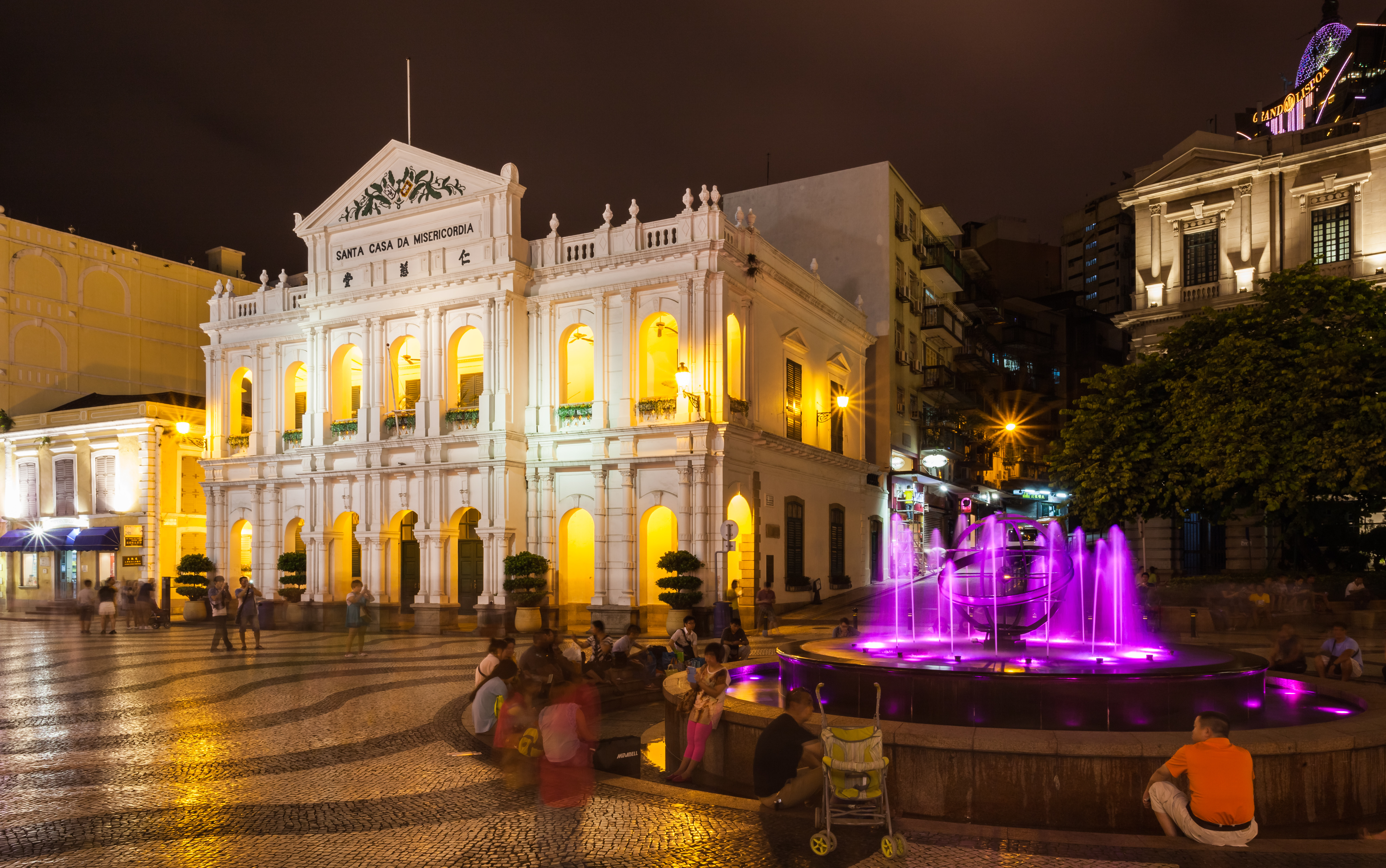 Holy House of Mercy, Macau